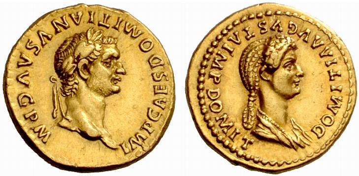 Aureus 82-83, AV 7.74 g. IMP CAESAR DOMITIANVS AVG P M Laureate head of Domitian right. Rev. DOMITIA AVGVSTA IMP DOMIT Draped bust of Domitia right. RIC 210. BMC 58. C 58. CBN 58. Calicó 943b. Biaggi 443.